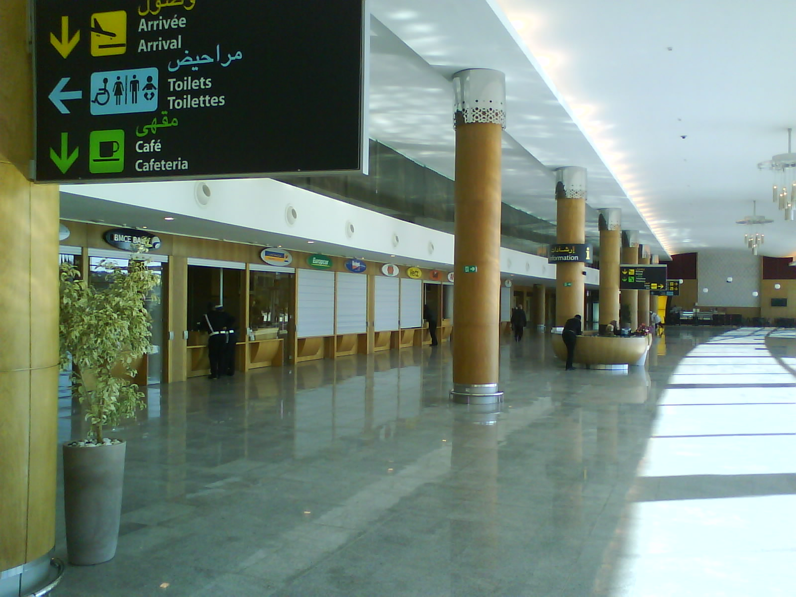 View of part of the public area of the new Terminal 1 of the Rabat-Salé Airport